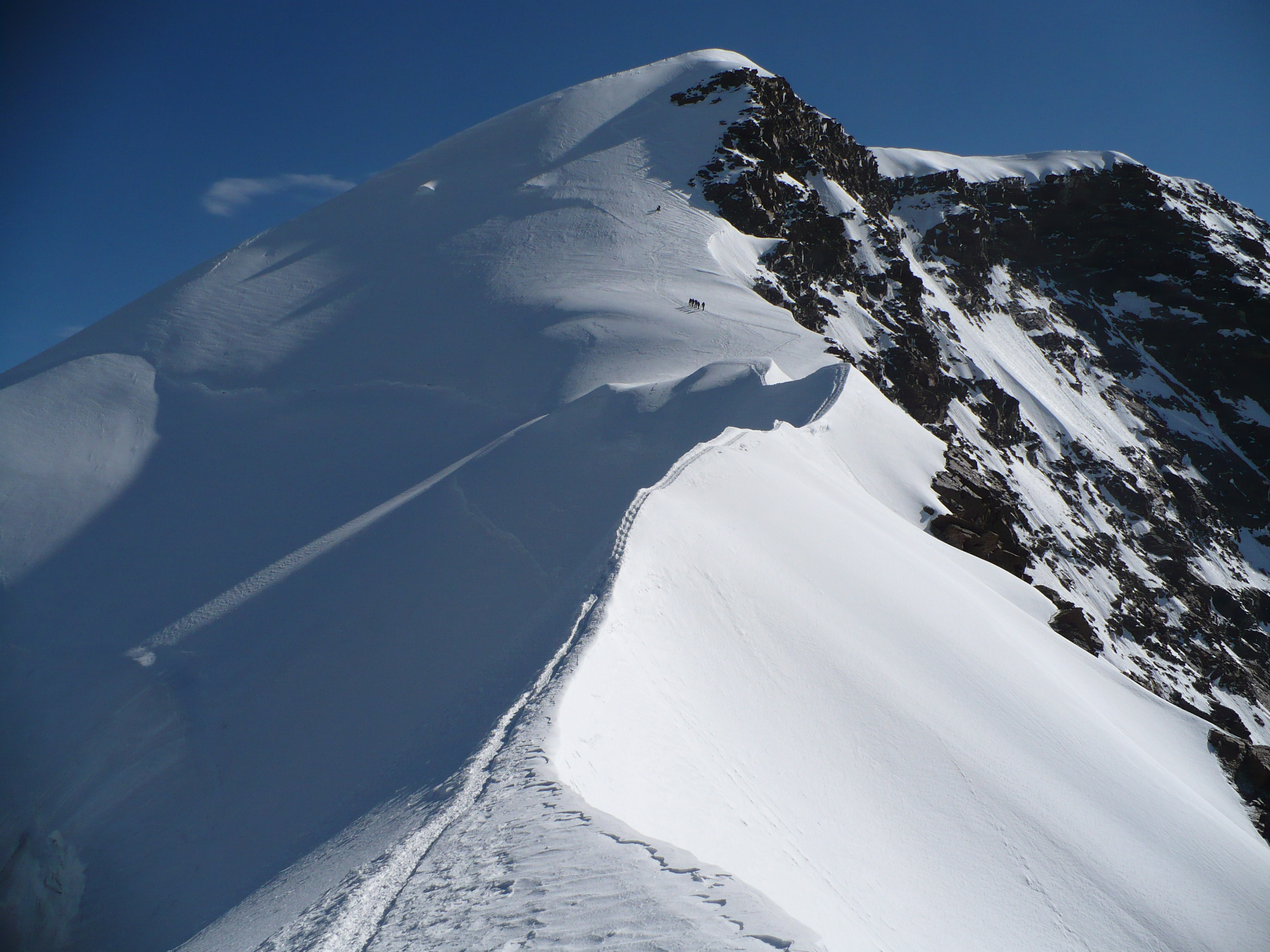 Western Liskamm